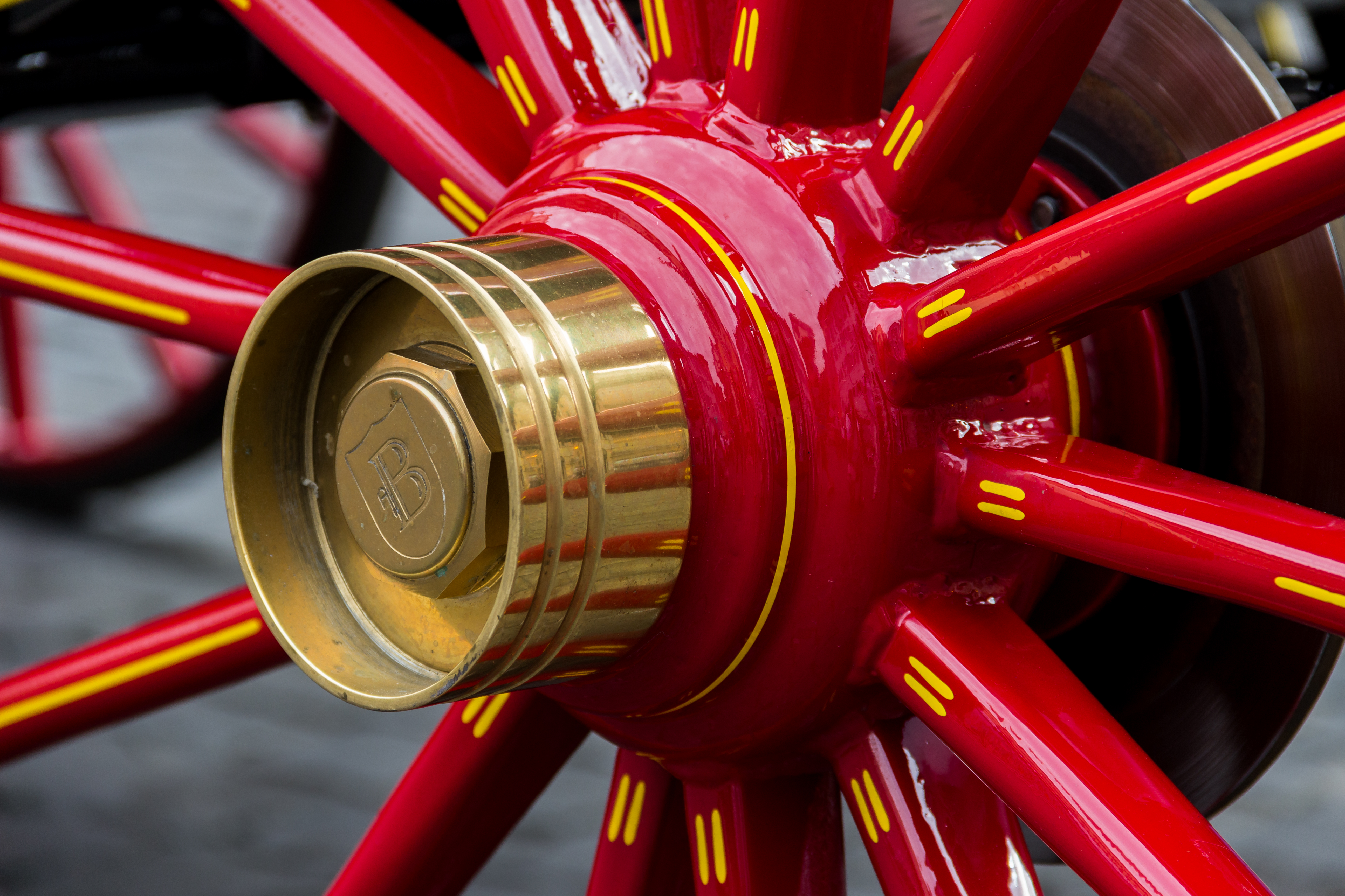 Wheel hub of a carriage at the Piazza della Rotonda in Rome, Italy